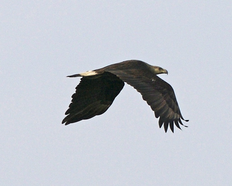 A Grey-headed Fish Eagle flying in Kazaringa, Assam, India.